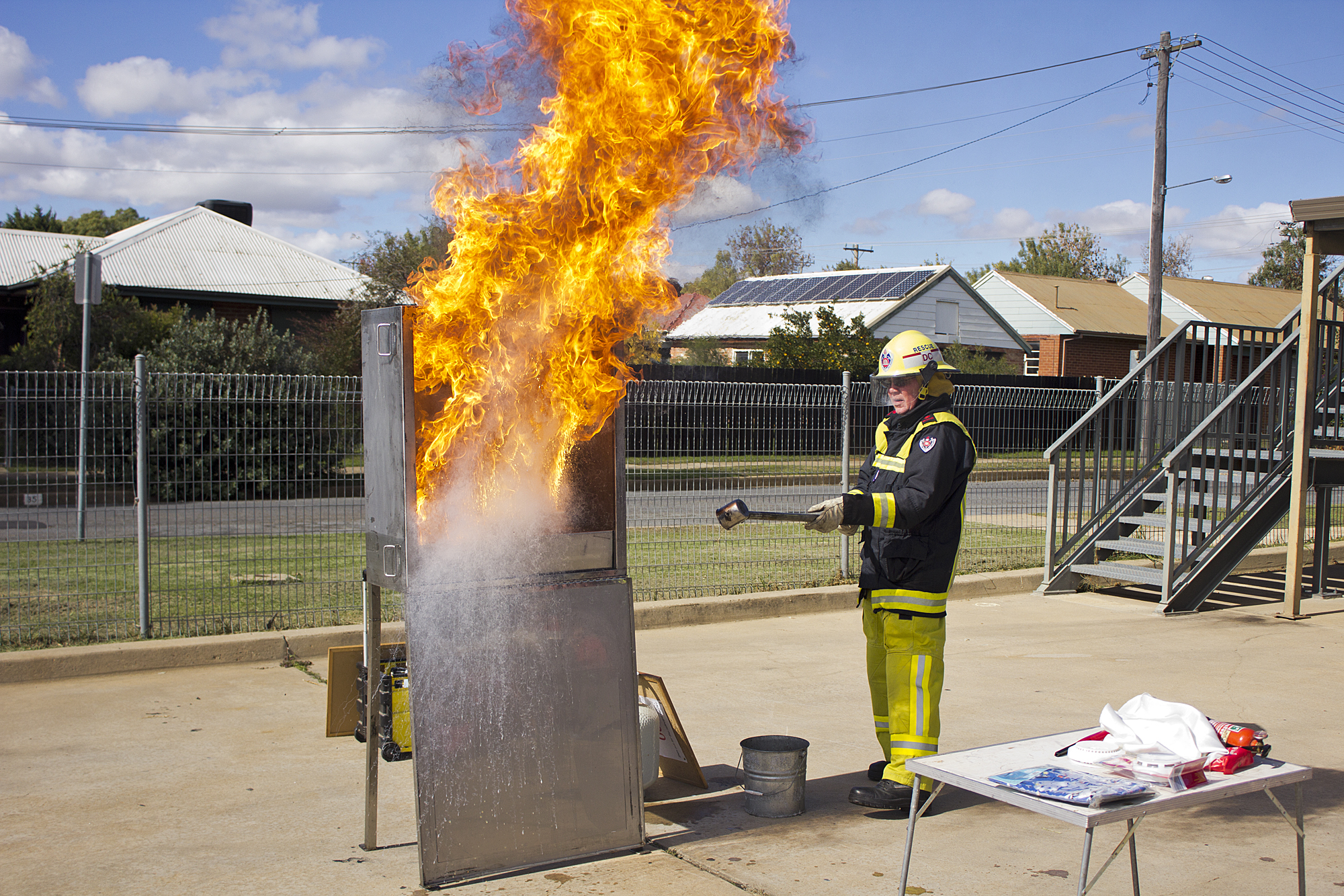 Kitchen oil fire demonstration, showing the boilover when incorrectly using water to extinguish an chip pan fire, during the Fire and Rescue NSW Open Day at the Turvey Park Fire Station.